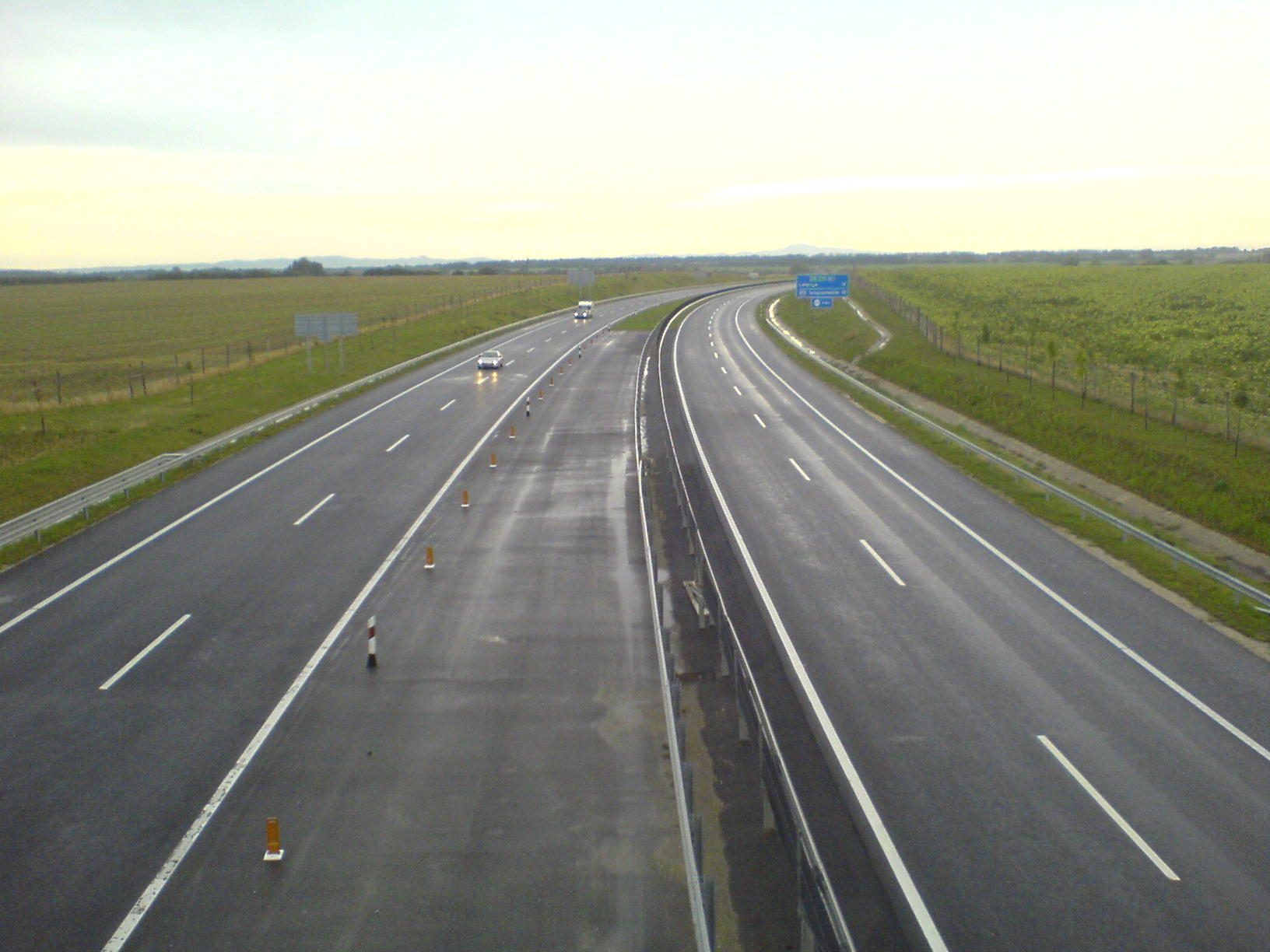 M7 motorway (Hungary) near Eszteregnye.